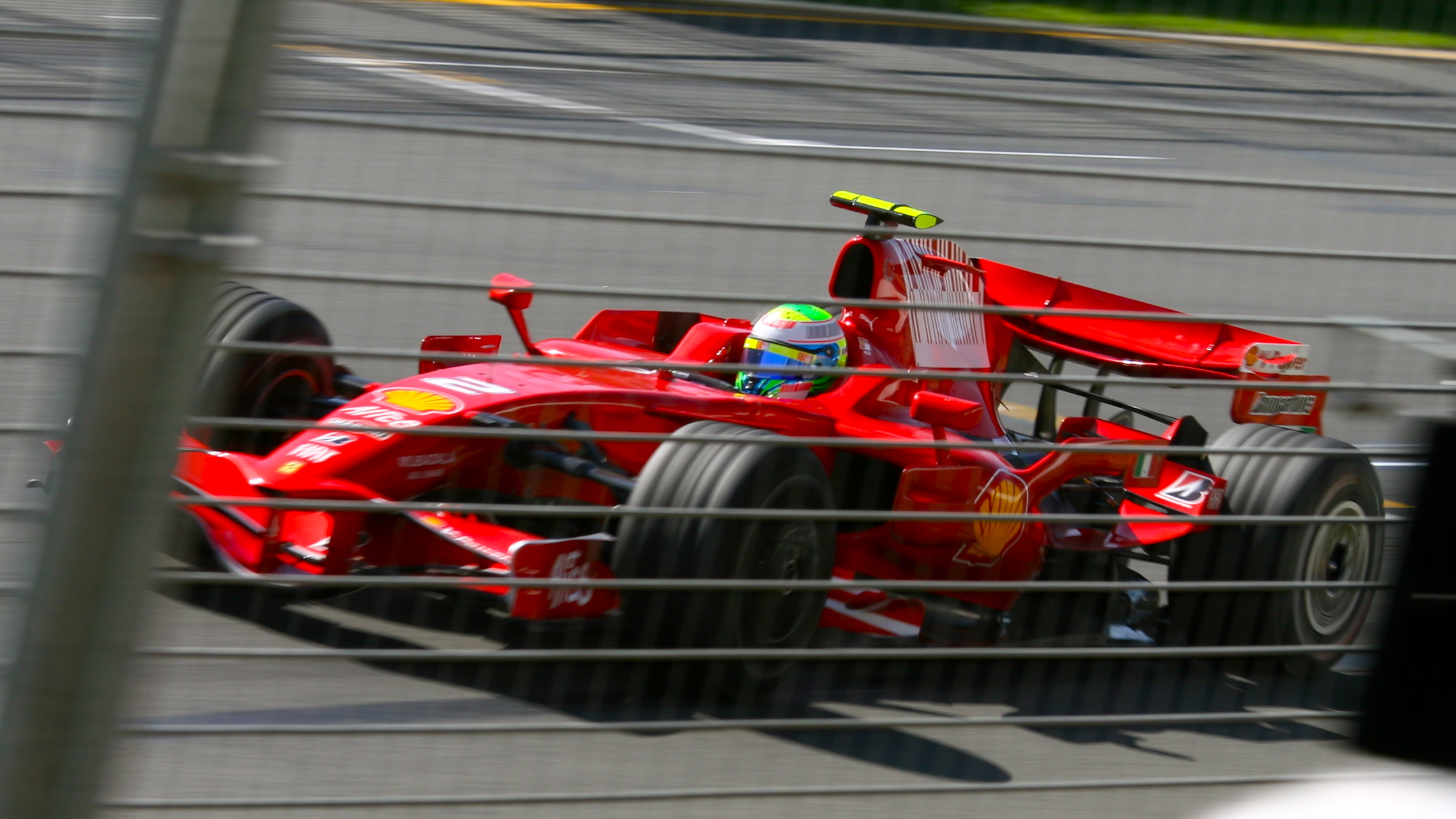 Felipe Massa during practice at the 2008 F1 ING Australian Grand Prix